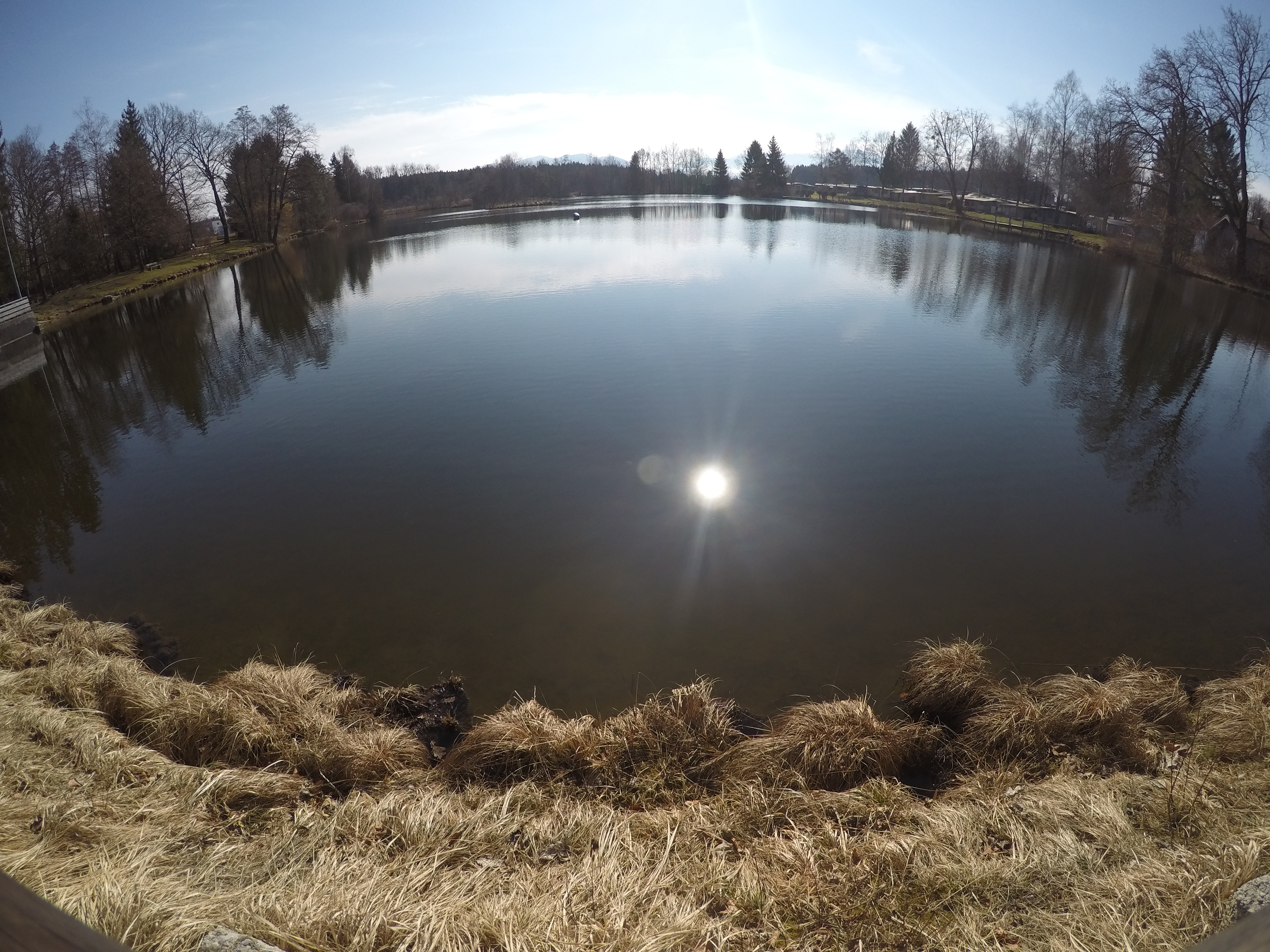 Kirnbergsee, Bavaria